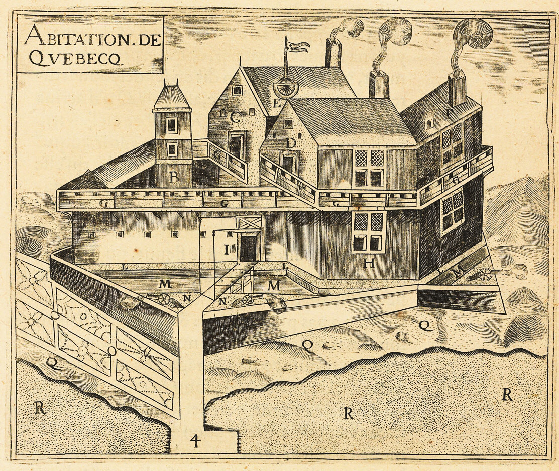 The Quebec Settlement : A.—The Warehouse. B.—Pigeon-loft. C.—Detached Buildings where we keep our arms and for Lodging our Workmen. D.—Another Detached Building for the Workmen. E.—Sun-dial. F.—Another Detached Building where is the Smithy and where the Workmen are Lodged. G.—Galleries all around the Lodgings. H.—The Sieur de Champlain's Lodgings. I.—The door of the Settlement with a Draw-bridge. L Promenade around the Settlement ten feet in width to the edge of the Moat. M.—Moat the whole way around the Settlement. O.—The Sieur de Champlain's Garden. P.—The Kitchen. Q.—Space in front of the Settlement on the Shore of the River. R.—The great River St. Lawrence.